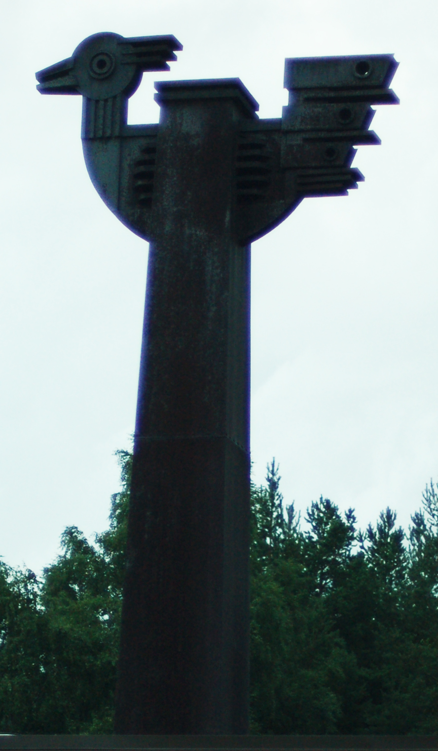 Chimny by Rolf Hansen